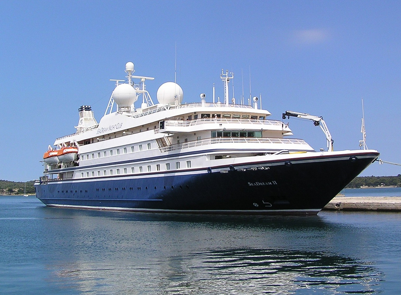 The cruise ship SeaDream II in Pula, Croatiaself-made